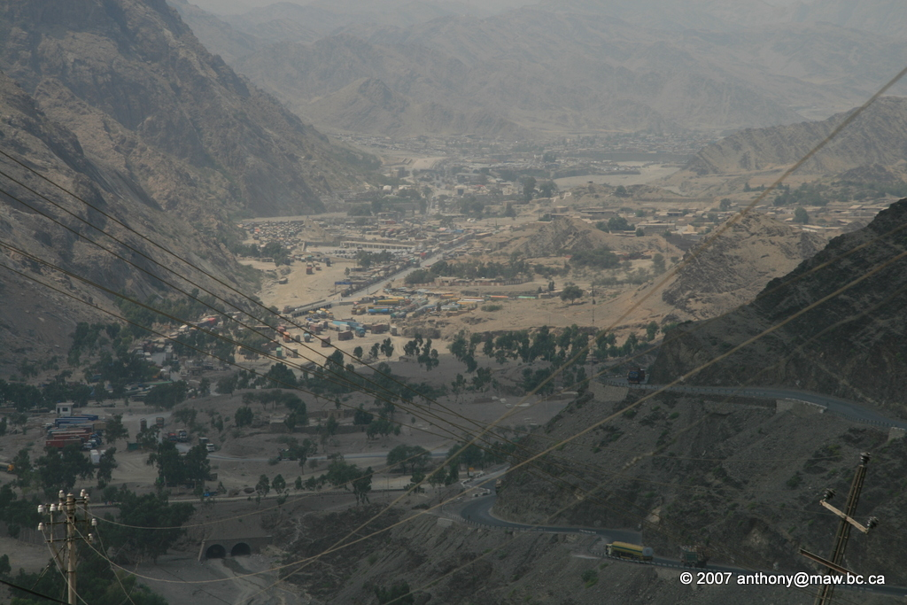 Inland transfer port at the Pakistan-Afghanistan borderline.